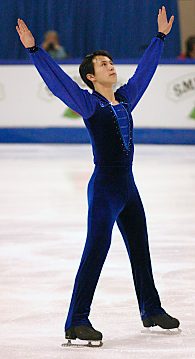 Patrick Chan competes at the 2005 World Junior Championships.